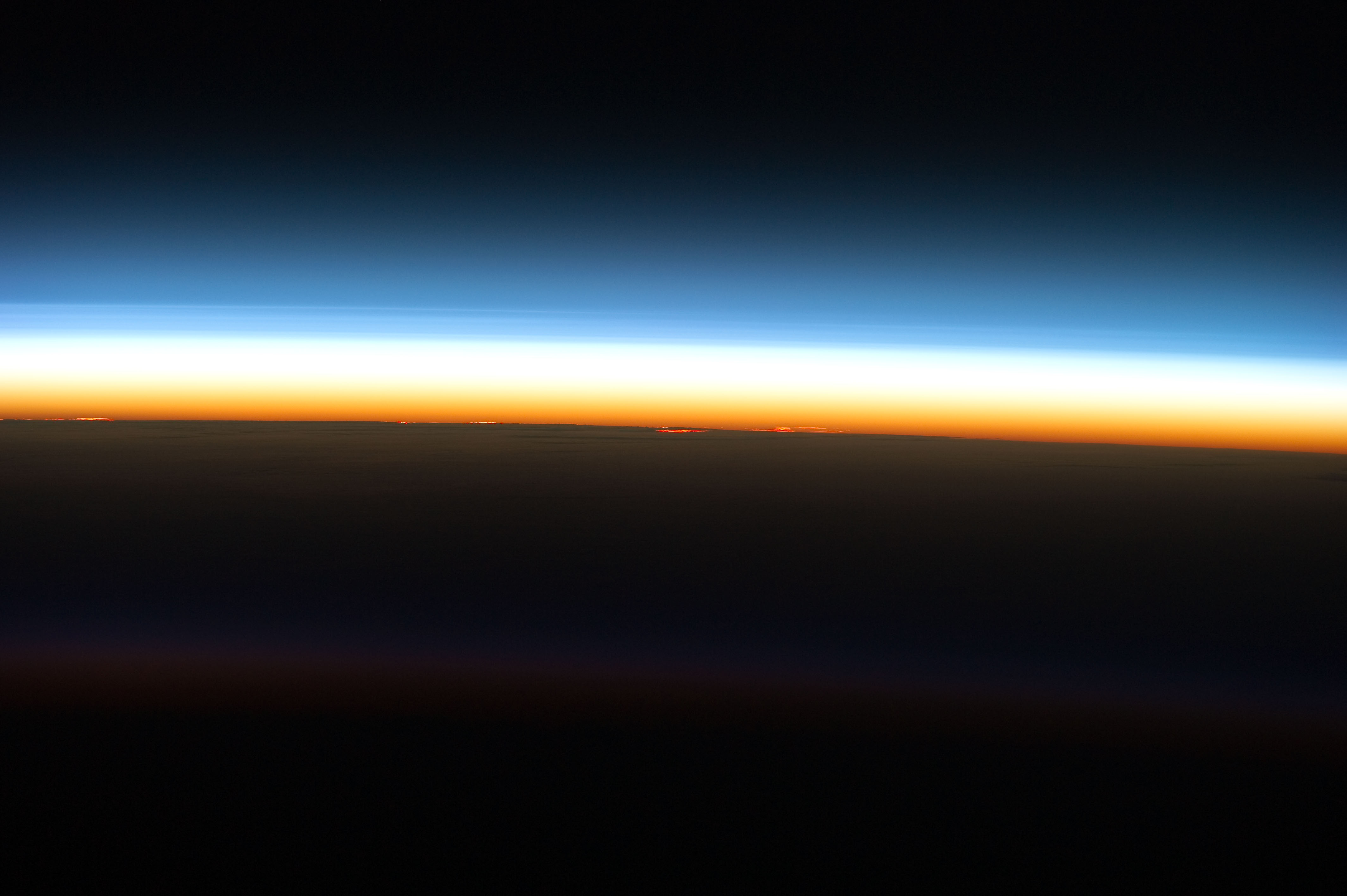 Layers of Earth's atmosphere, brightly colored as the sun rises, are featured in this image photographed by an STS-133 crew member on the Earth-orbiting space shuttle Discovery during flight day two activities.